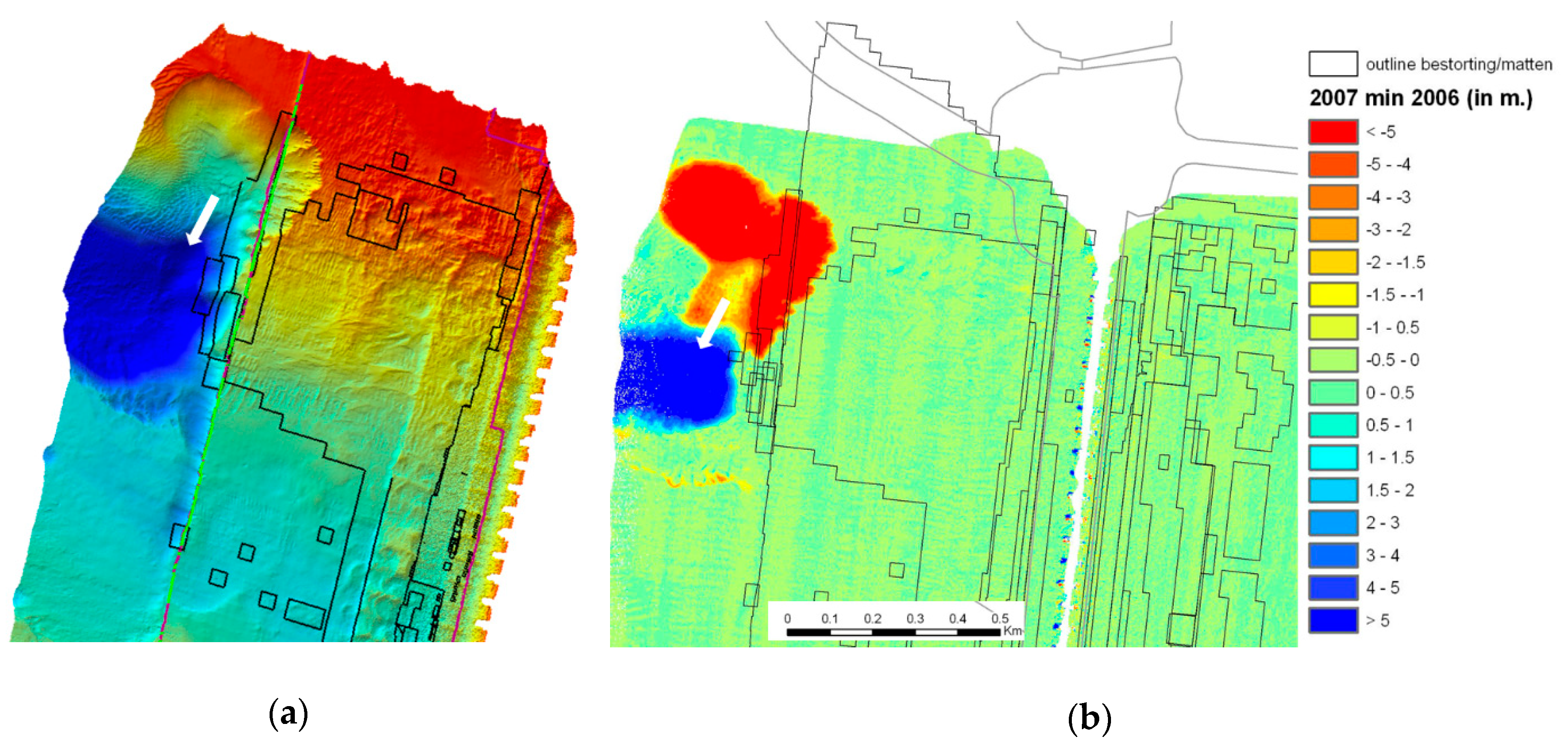 (a) Large subaqueous flow slide near Eastern Scheldt Storm Surge Barrier, Netherlands (Roompot channel (in 3D bathymetry), 2007; (b) Differential bathymetry 2007-2006 with scale and color scheme. Red = erosion ( +5 m). Distance 500 m. Black lines indicate contours of bed protection, white arrows indicate flow slide direction. From Deltares, 2008